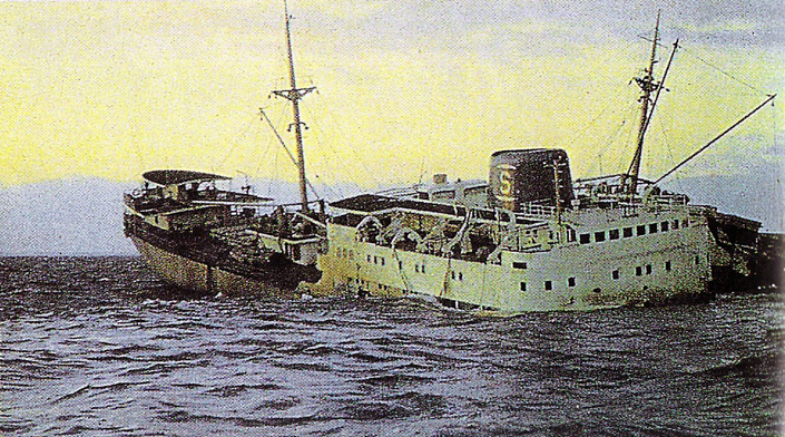 The wreck of M/S Coolaroo ca. 1964 off Helsinki, Finland Ship Type: Cargo ship (ref) Built by Eriksbergs, Gothenburg, Sweden Launch Date: 12.12.55 Date of completion: 2.56 Length overall: 132.0 LPP: 121.9 Beam: 16.5 Tons: 5775 Link: 2674 DWT: 5650 Yard No: 493 Speed: 17.5 kn History 1955 Named: Coolaroo Flag: Sweden 27.10.61 Wrecked off Helsinki